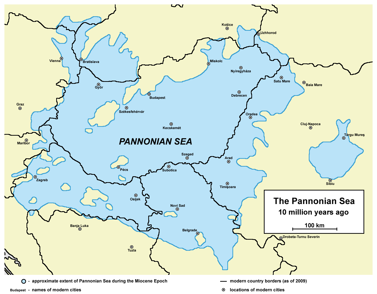 approximate extent of Pannonian Sea during the Miocene Epoch with modern borders and settlements Internet references: * [1] * [2]